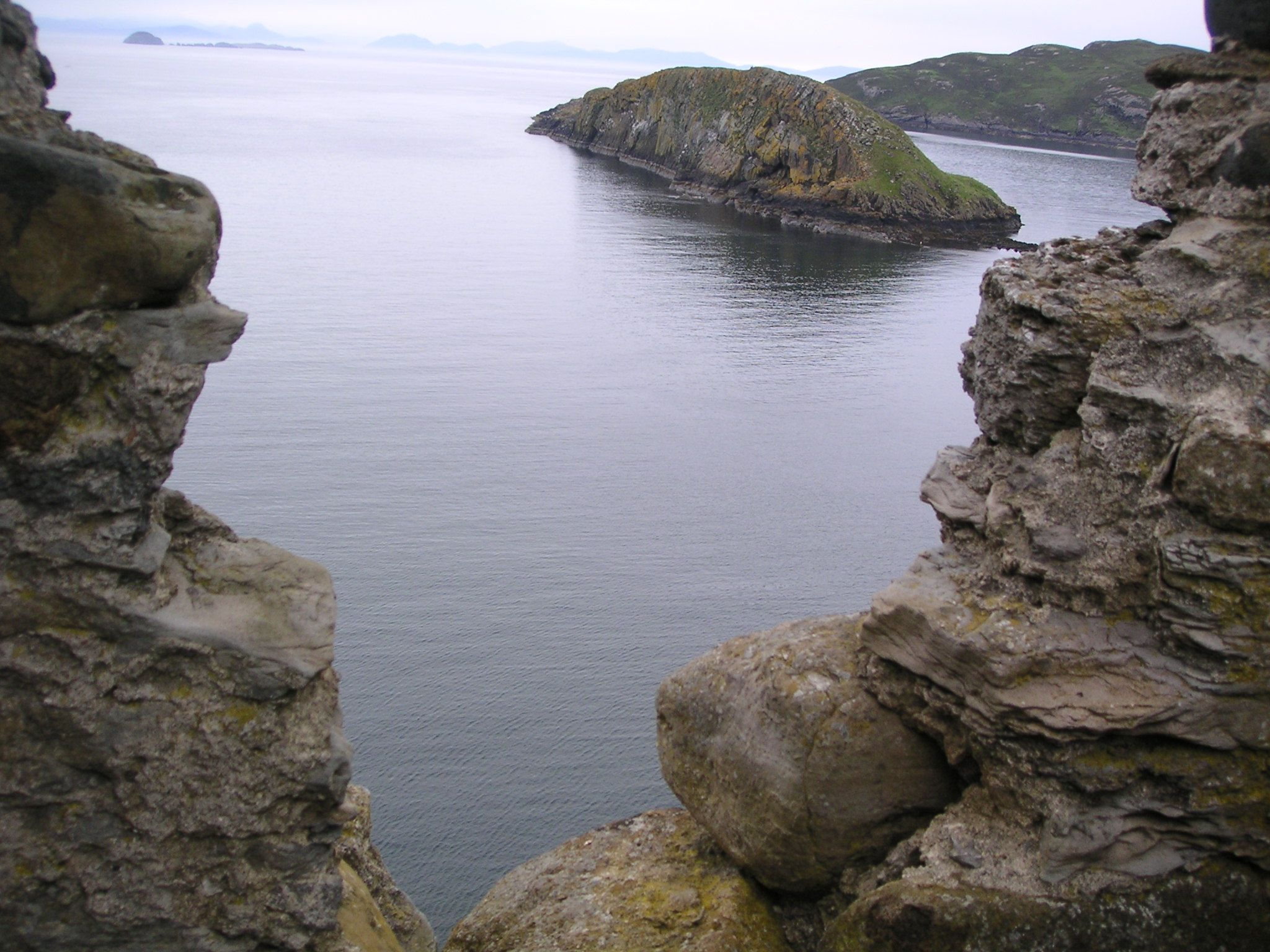 Trotternish, the northenmost peninsula on the Isle of Skye in Scotland.